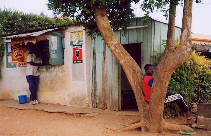 Shop building in the Farandole District, Cocodi Quarter of Abidjan, Côte d'Ivoire.